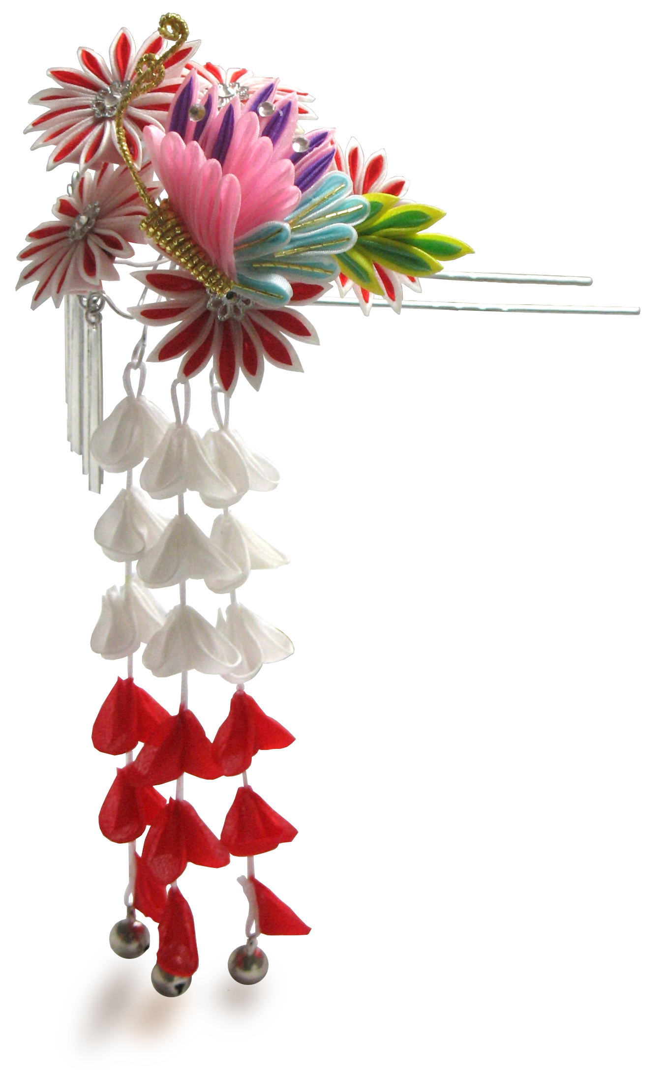 Tsumami kanzashi or "folded kanzashi" hair accessory. Made from silk by folding.